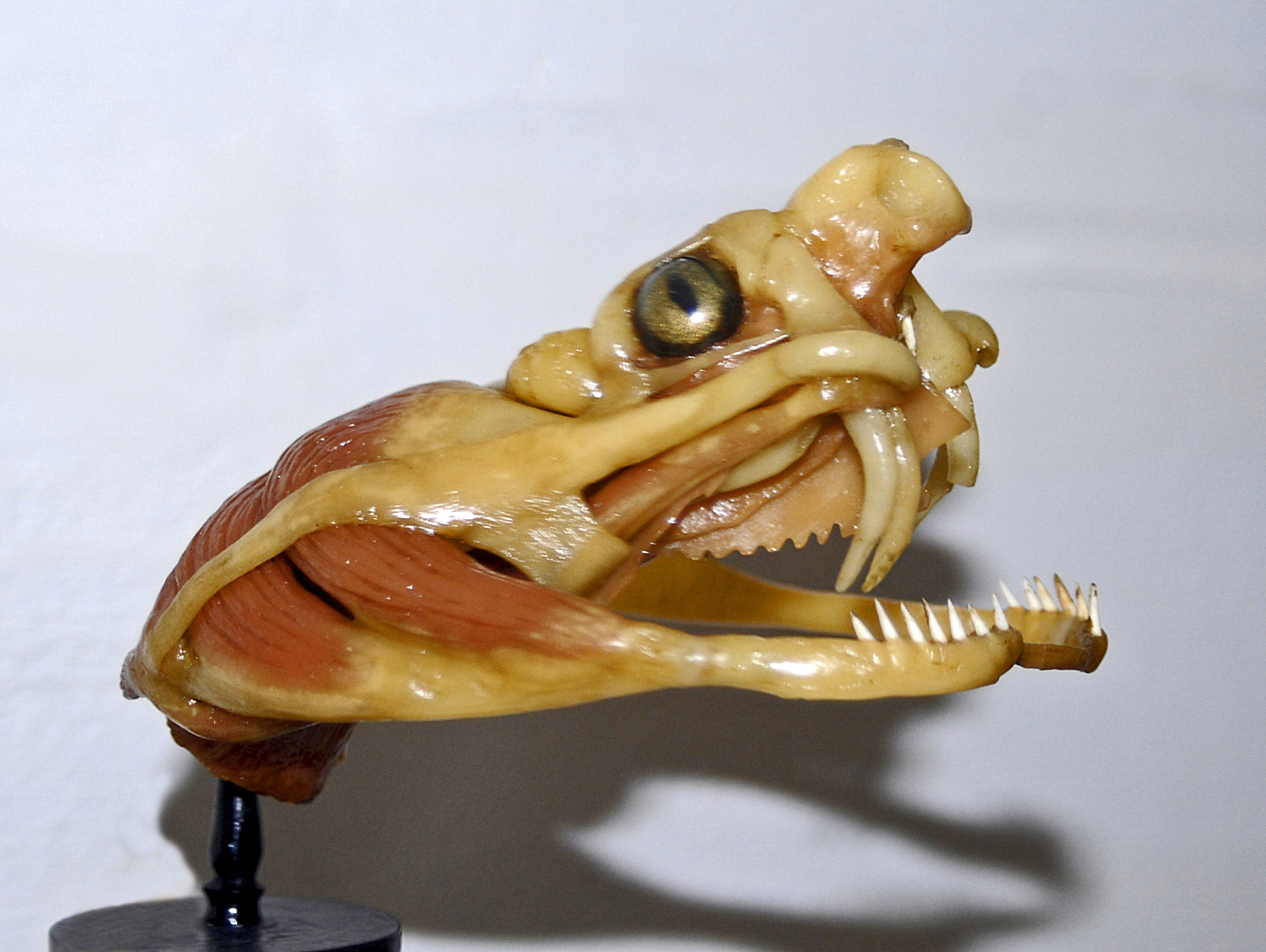 Vipera berus - Venom delivery apparatus. On display at the University History Museum, University of Pavia